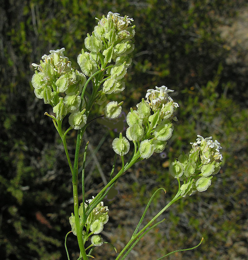 A minor weed of central Chile. In context at